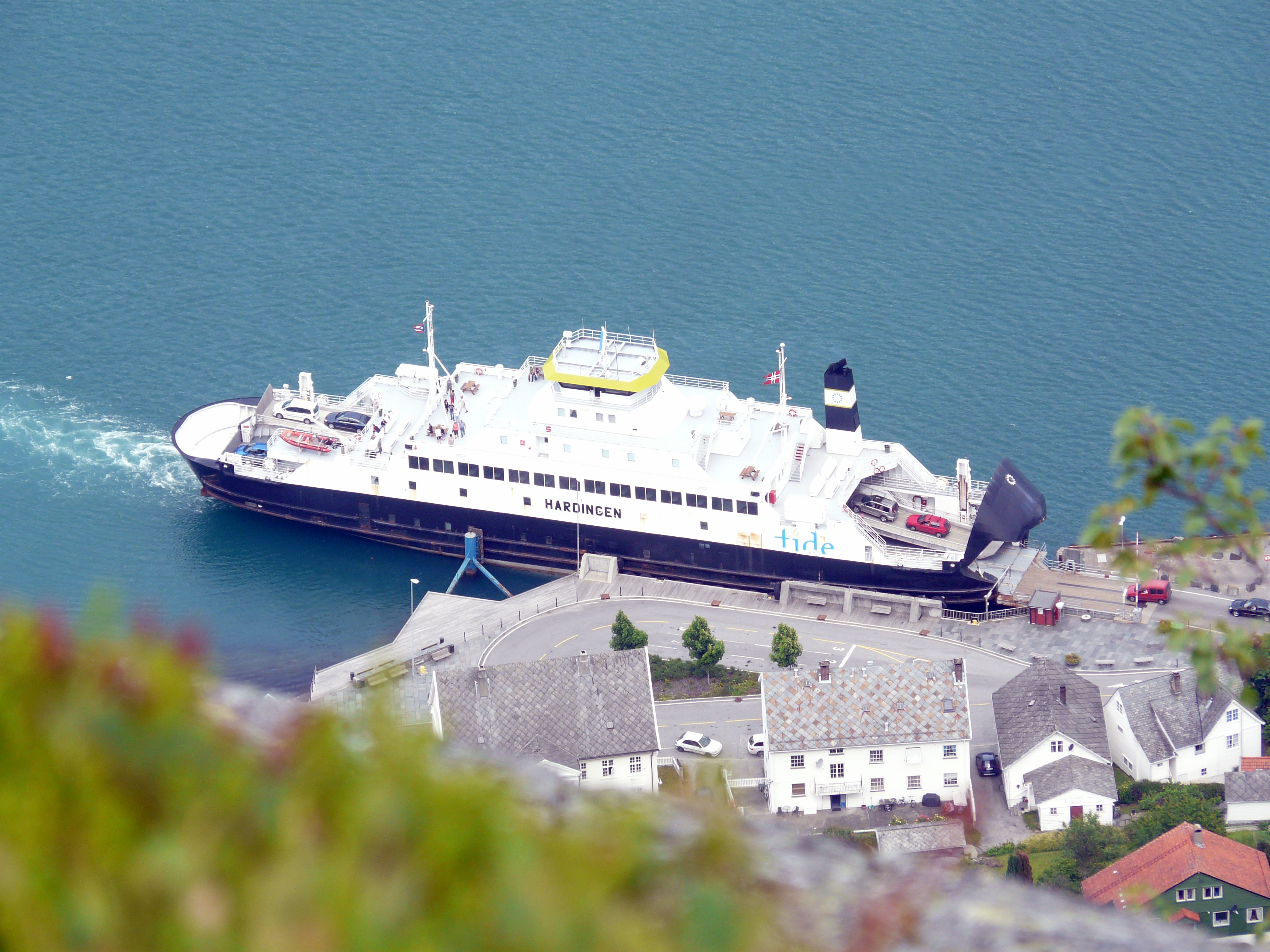 The ferry at Utne, taken from Setehaug. Got a bit of tilt shift going on.